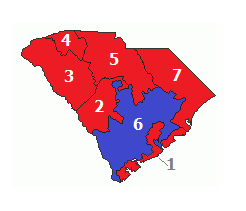 South Carolina U.S House election 2012